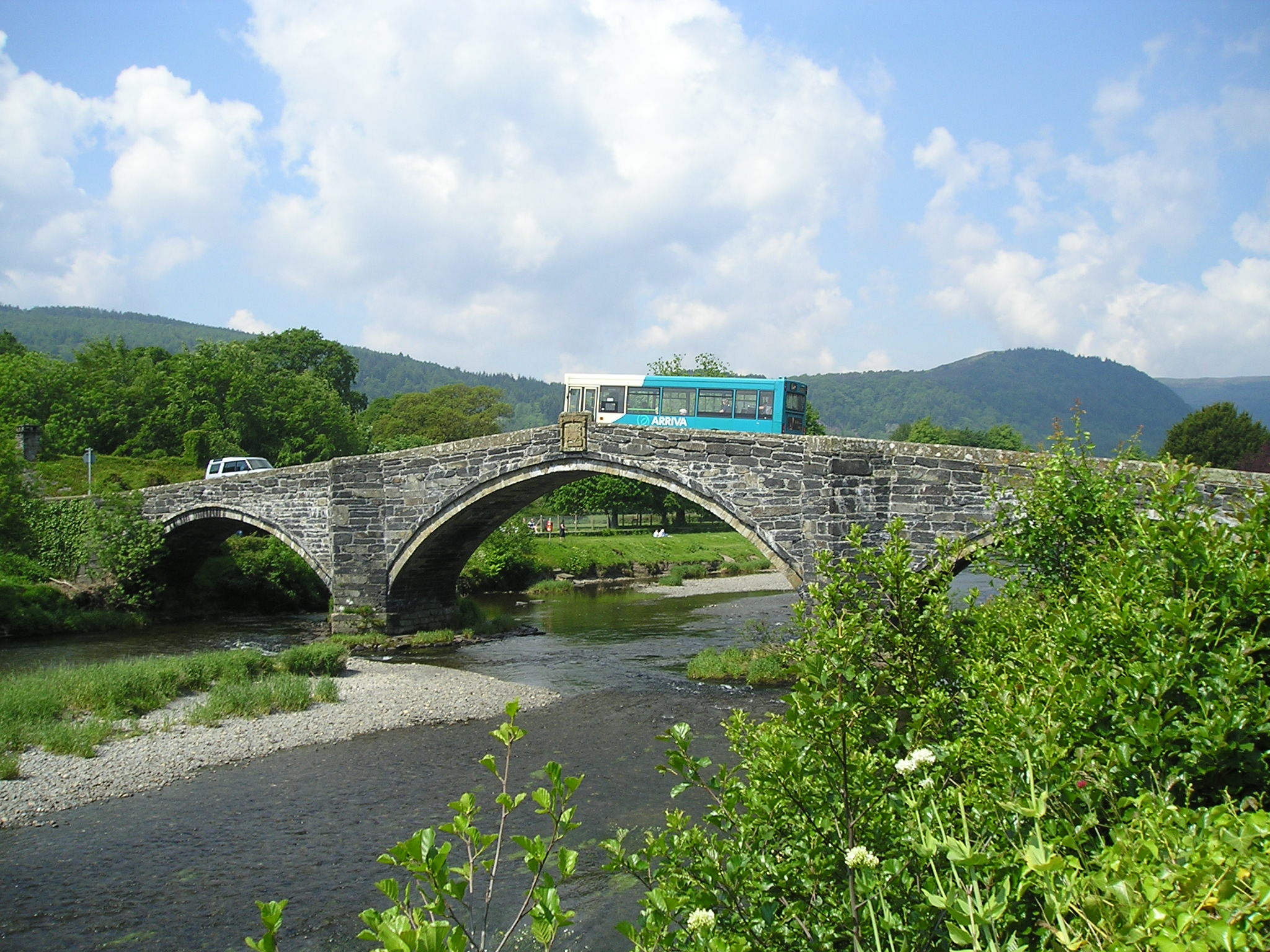 made by me Noel Walley